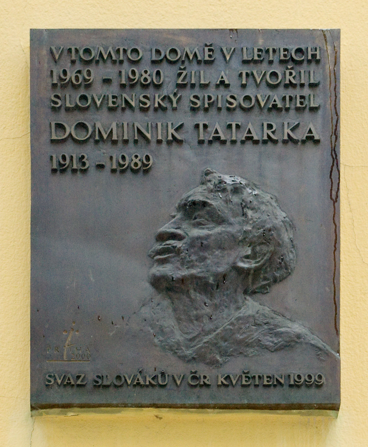 Plaque to Dominik Tatarka, on the house in Prague where he lived and worked in 1969–1980.